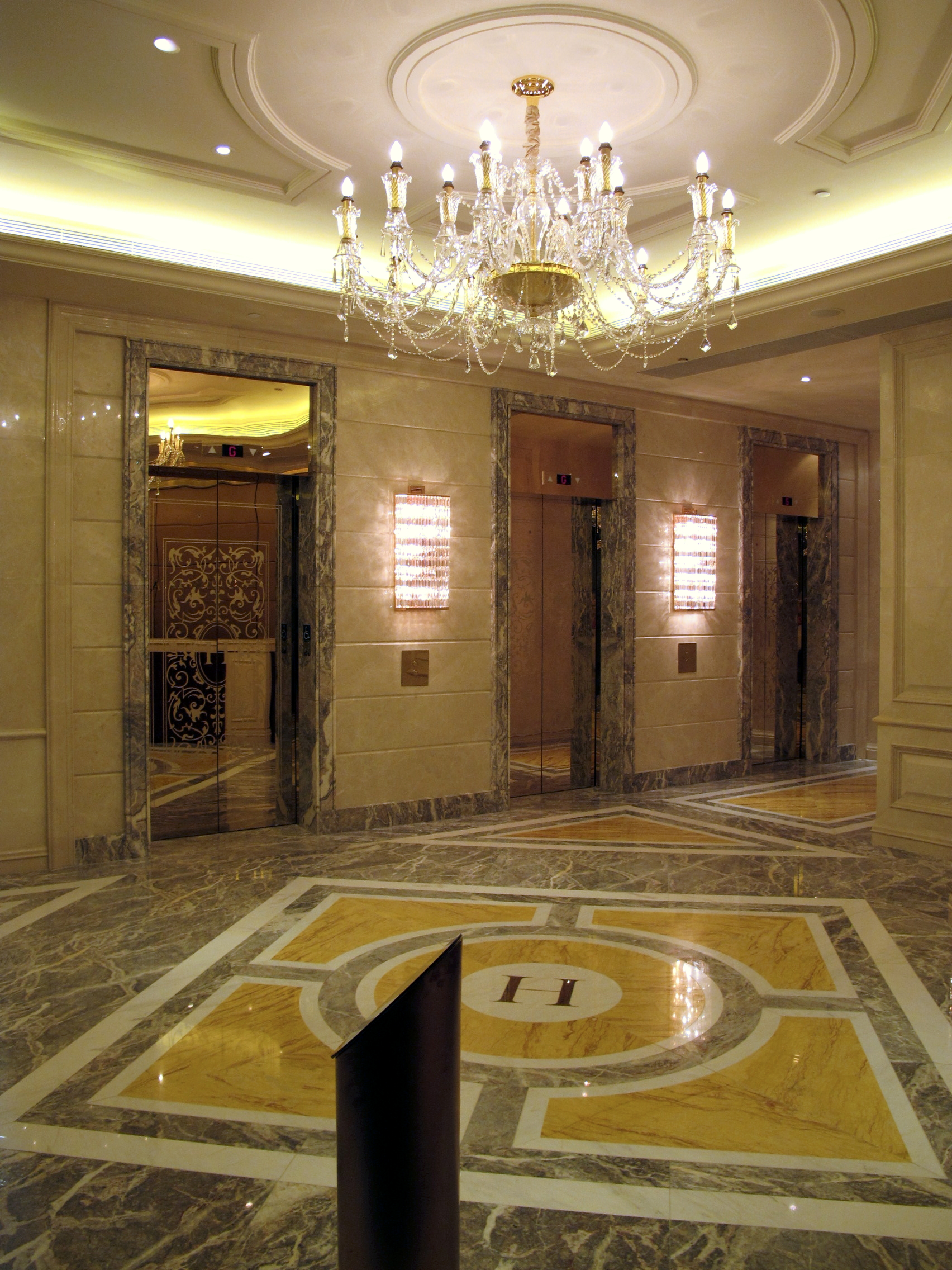 The Hermitage 帝峰·皇殿